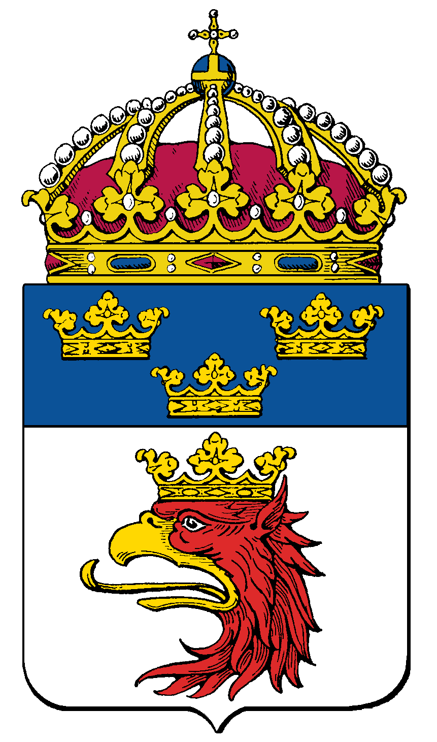 Coat of arms of the province of Malmöhus